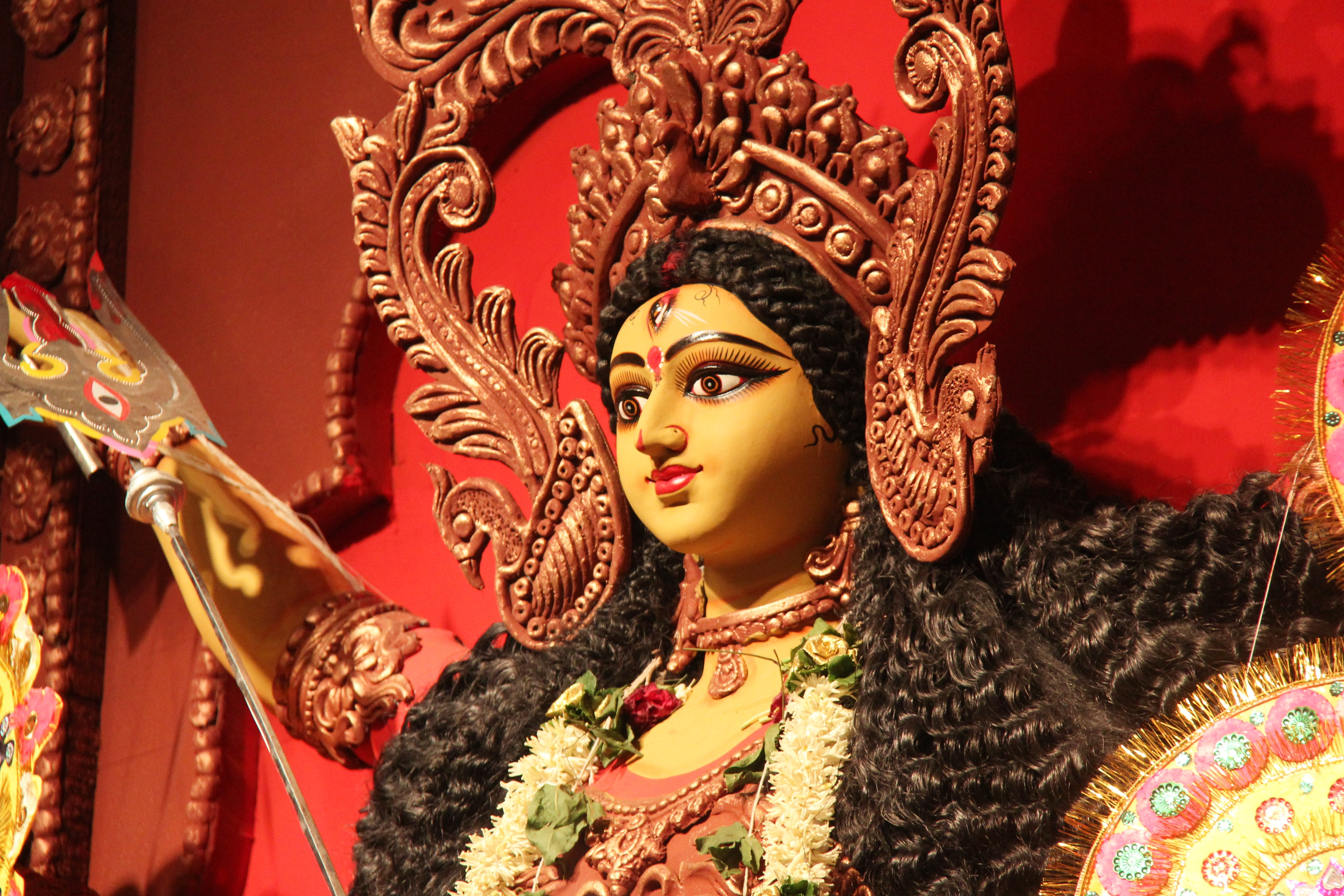 Durga idol from PBWA's Powai Sarvajanin Durgotsav in Hiranandani Gardens, Powai Mumbai in Oct 2015